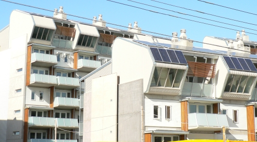 K2 sustainable apartments by Hansen Yuncken. Windsor, Victoria (Australia).